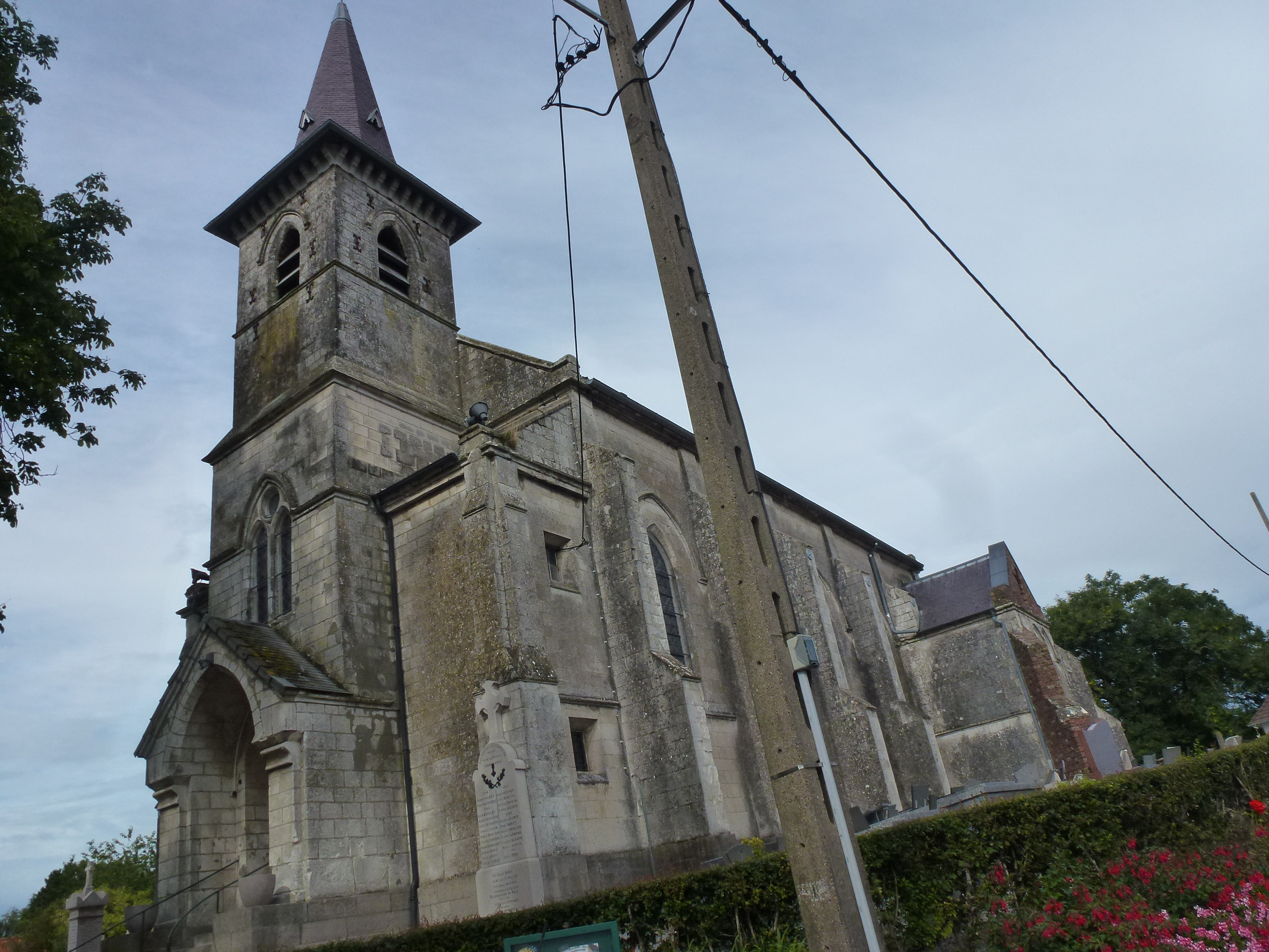 Campagne-lès-Guines (Pas-de-Calais) église Saint-Martin, extérieur